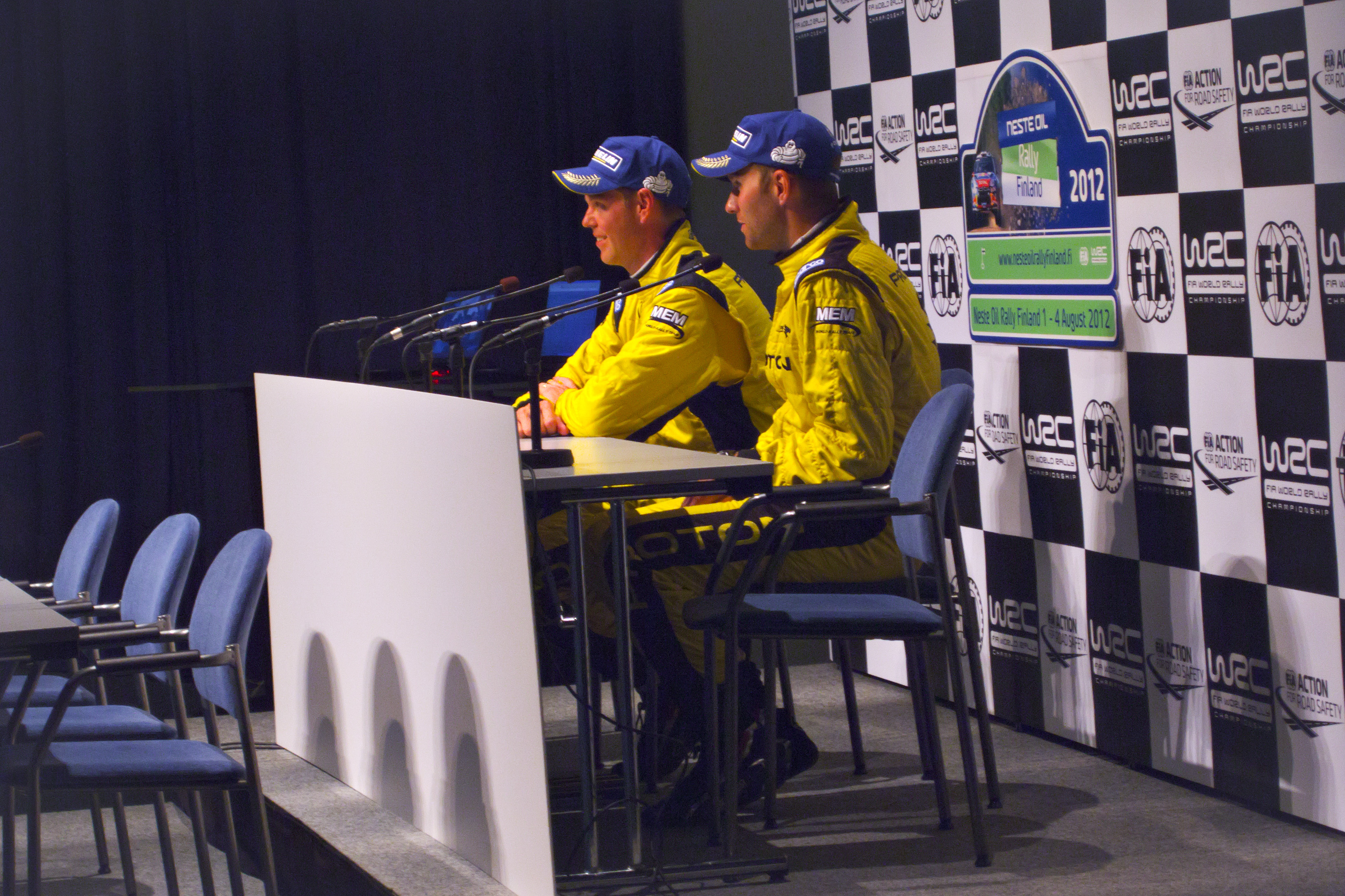 The podium and press conference of the 2012 Rally Finland.